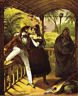 Costumes in Rio de Janeiro, 1823. Watercolor by Johann Moritz Rugendas. (Public domain)